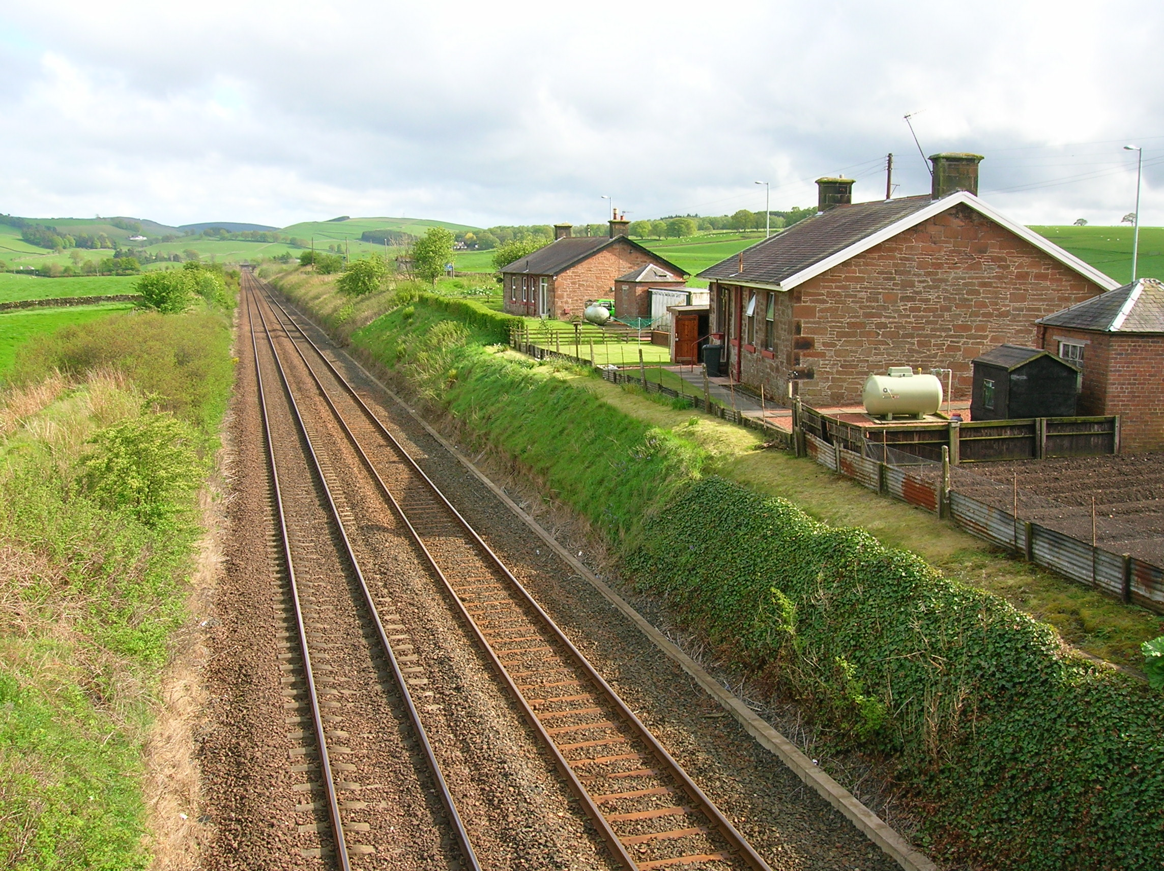 Closeburn old sttaion buildings, Dumfries & Galloway, Scotland. On the Glasgow - Kilmarnock - Carlisle line.